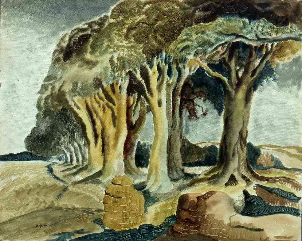 Line of trees in Lowland Scotland.